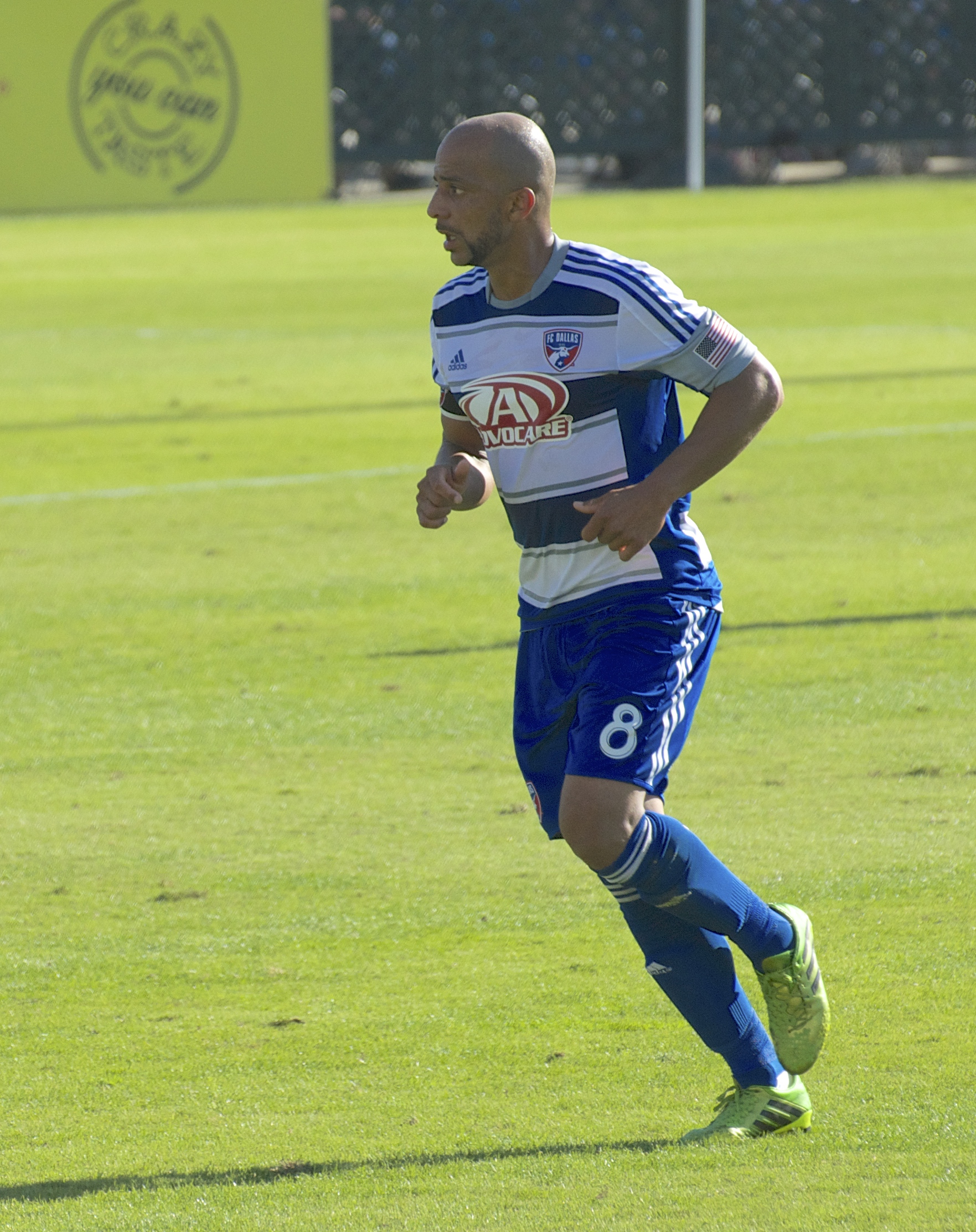 Peter Luccin, FC Dallas, Buck Shaw Stadium, 26 October 2013